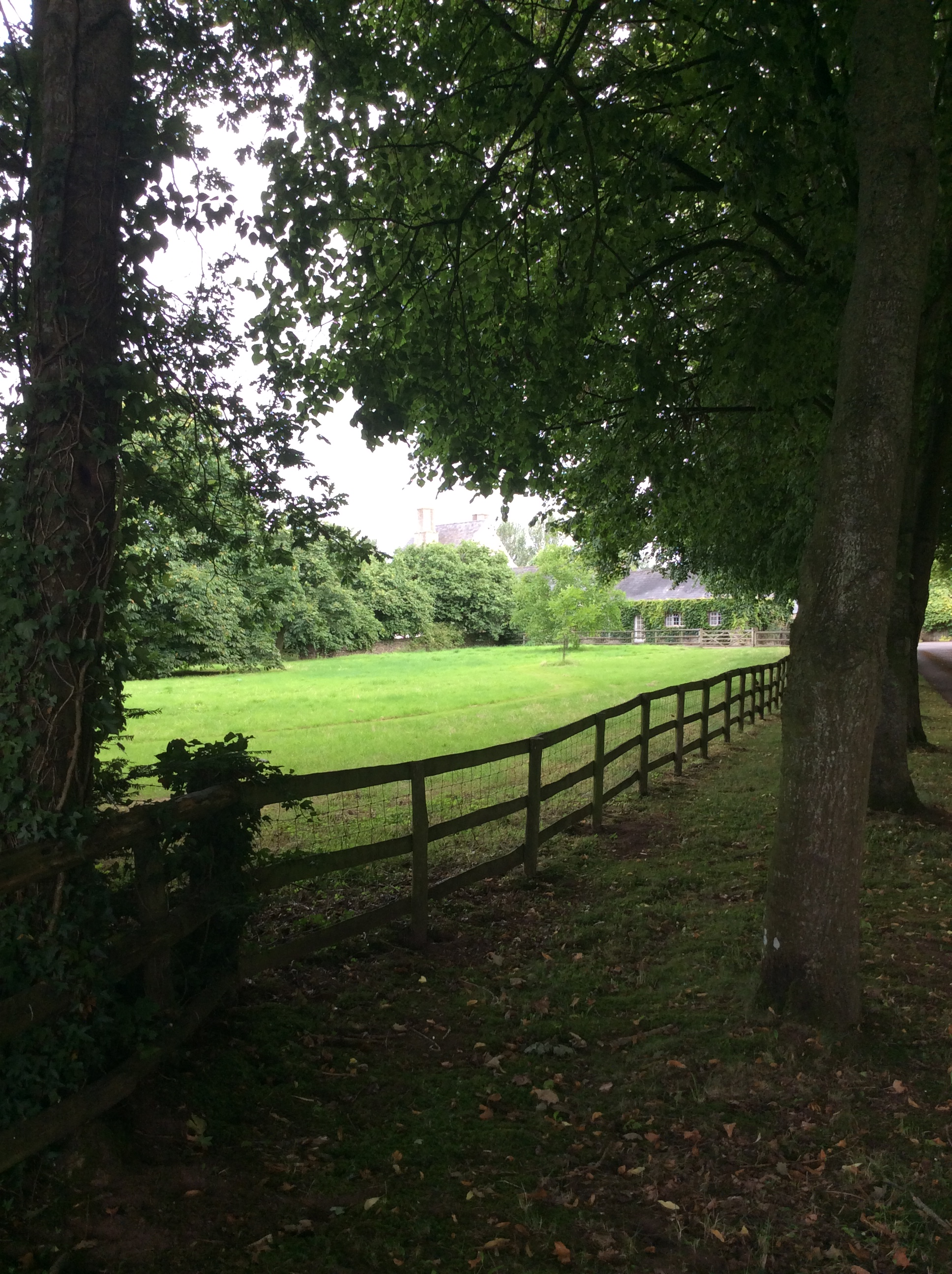 A distant, and poor view, but the best I was able to get.